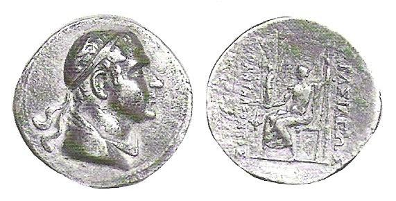 Coin of King Pantaleon, of the Indo-Greek Kingdom (s. II BC)